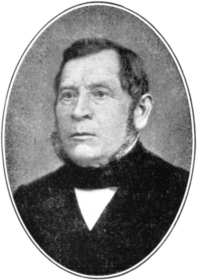 Christian Gottlob Holtzhausen (1811-1894) a freeman of the City Wittenberg